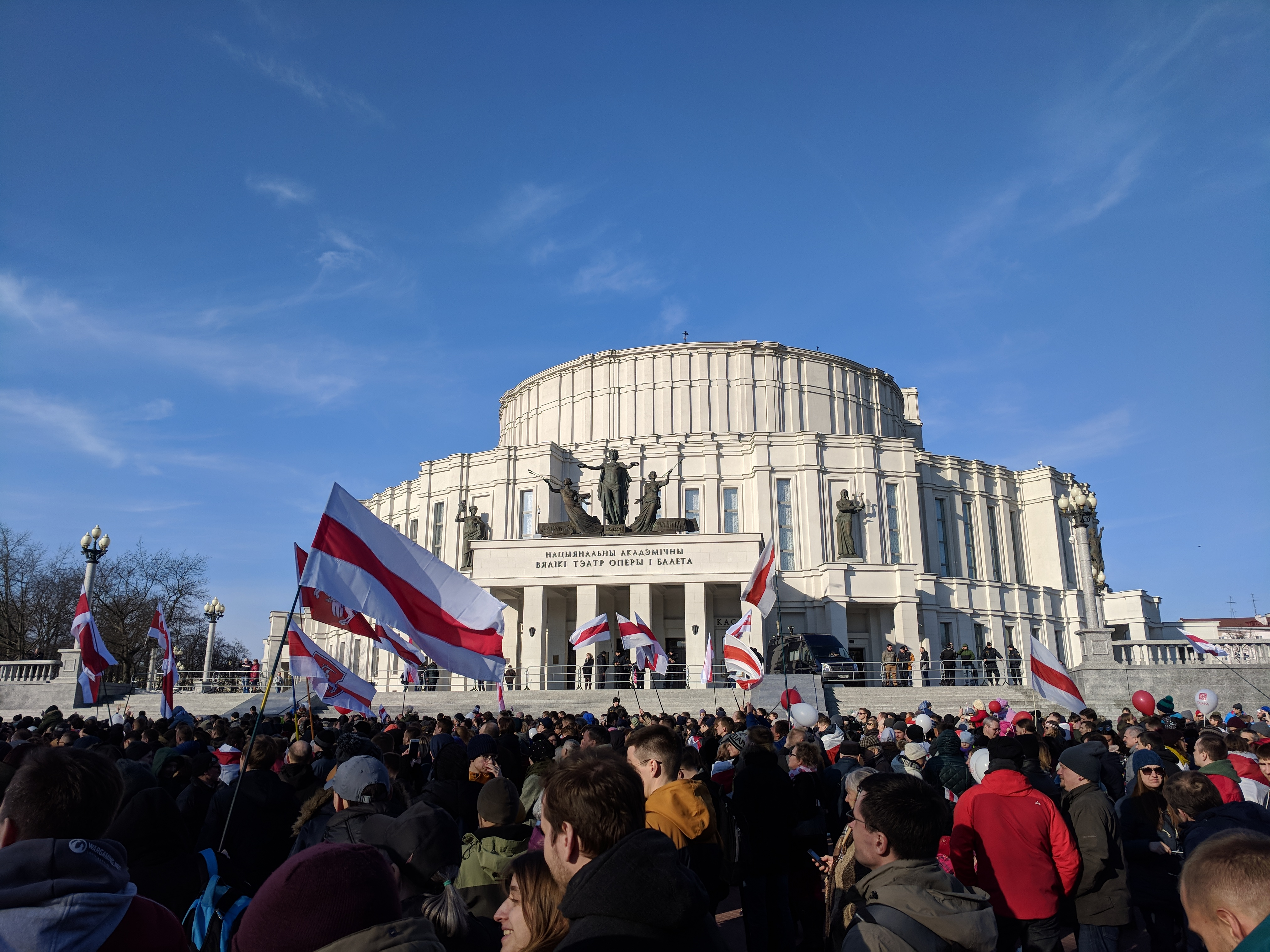 Freedom Day (Belarus, 2018)